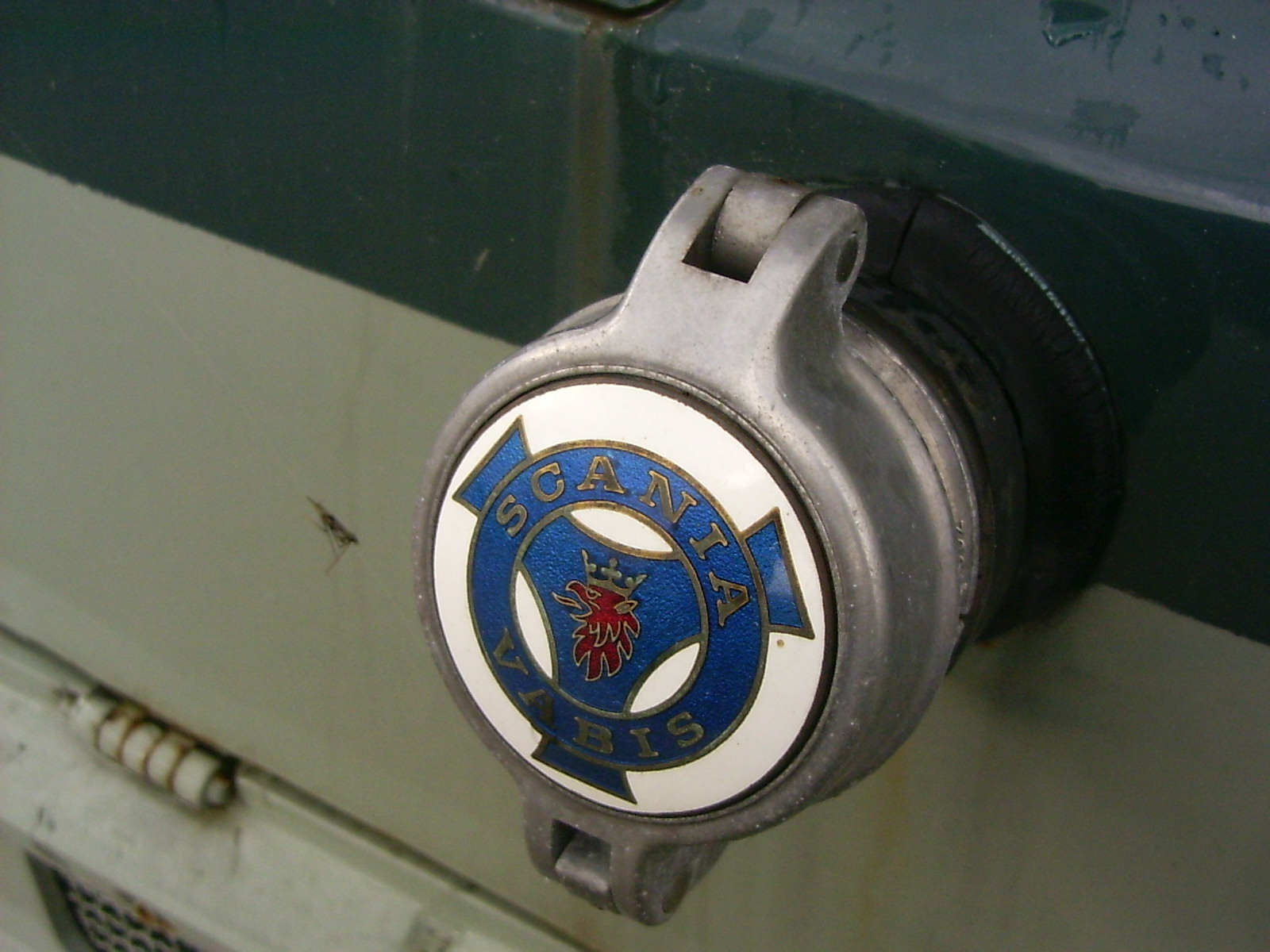 Scania-Vabis bf765914, photographed at Hans Classic Cars in Nijkerk. Swedish registration T481, Dutch registration BE-60-90. Body by Katrineholms Karosseri. Built 1966. 6 cilinders, 24 passengers. Former owner Arnes Omnibussar.